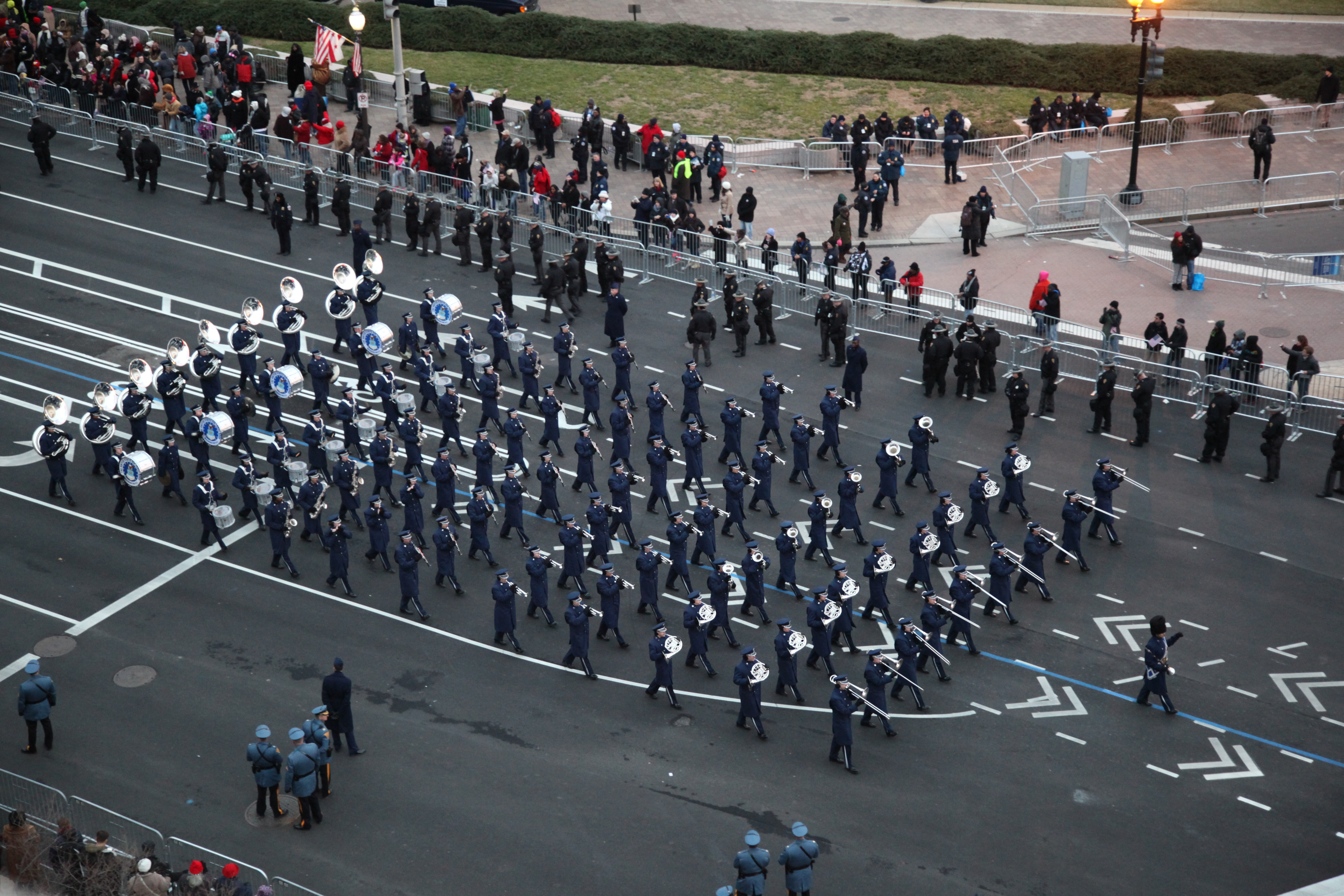 U.S. Airmen with the U.S. Air Force Band march during the 57th presidential inauguration parade Jan. 21, 2013, in Washington, D.C. President Barack H. Obama was elected to a second four-year term in office Nov. 6, 2012. More than 5,000 U.S. Service members participated in or supported the inauguration.